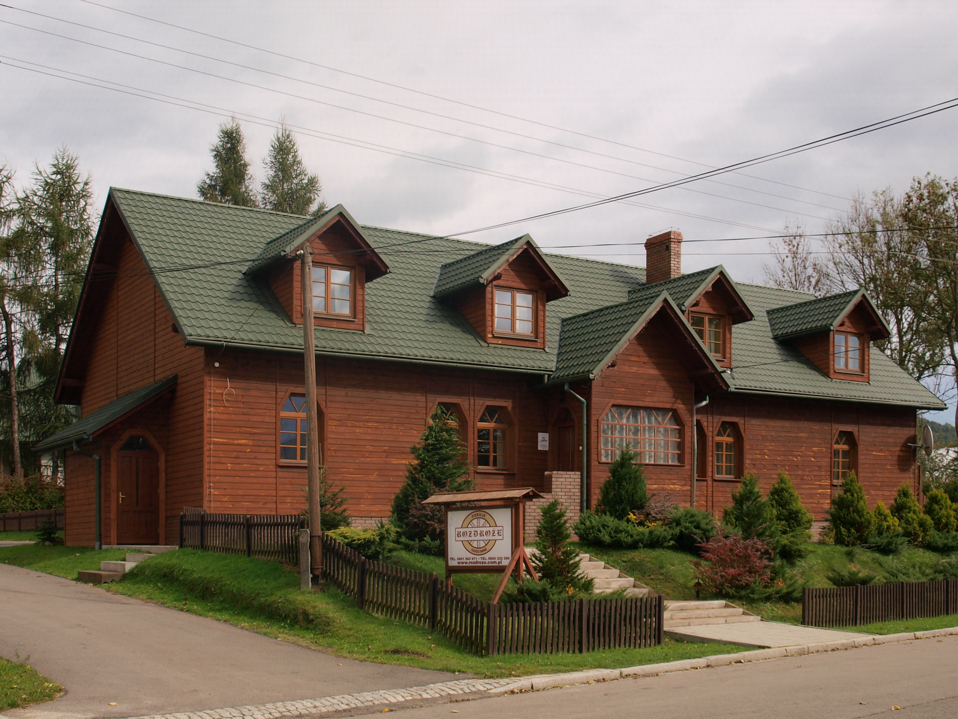 Wysowa-Zdrój - guesthouse "Rozdroże"